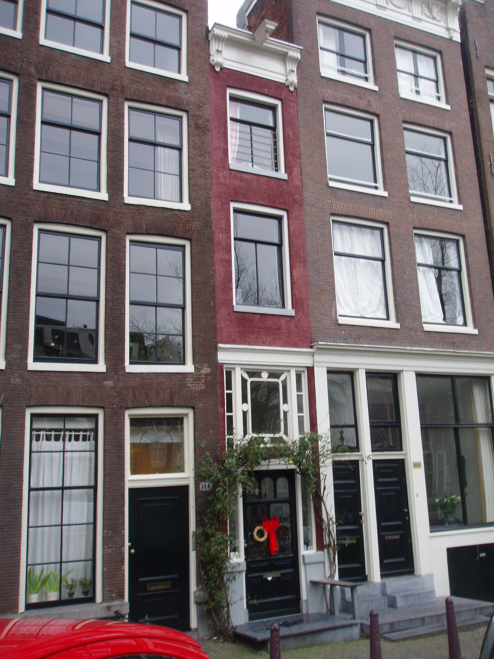 It's a photo of Singel 166. Singel 166 is the smallest house of Amsterdam. It's only 1.80m wide.